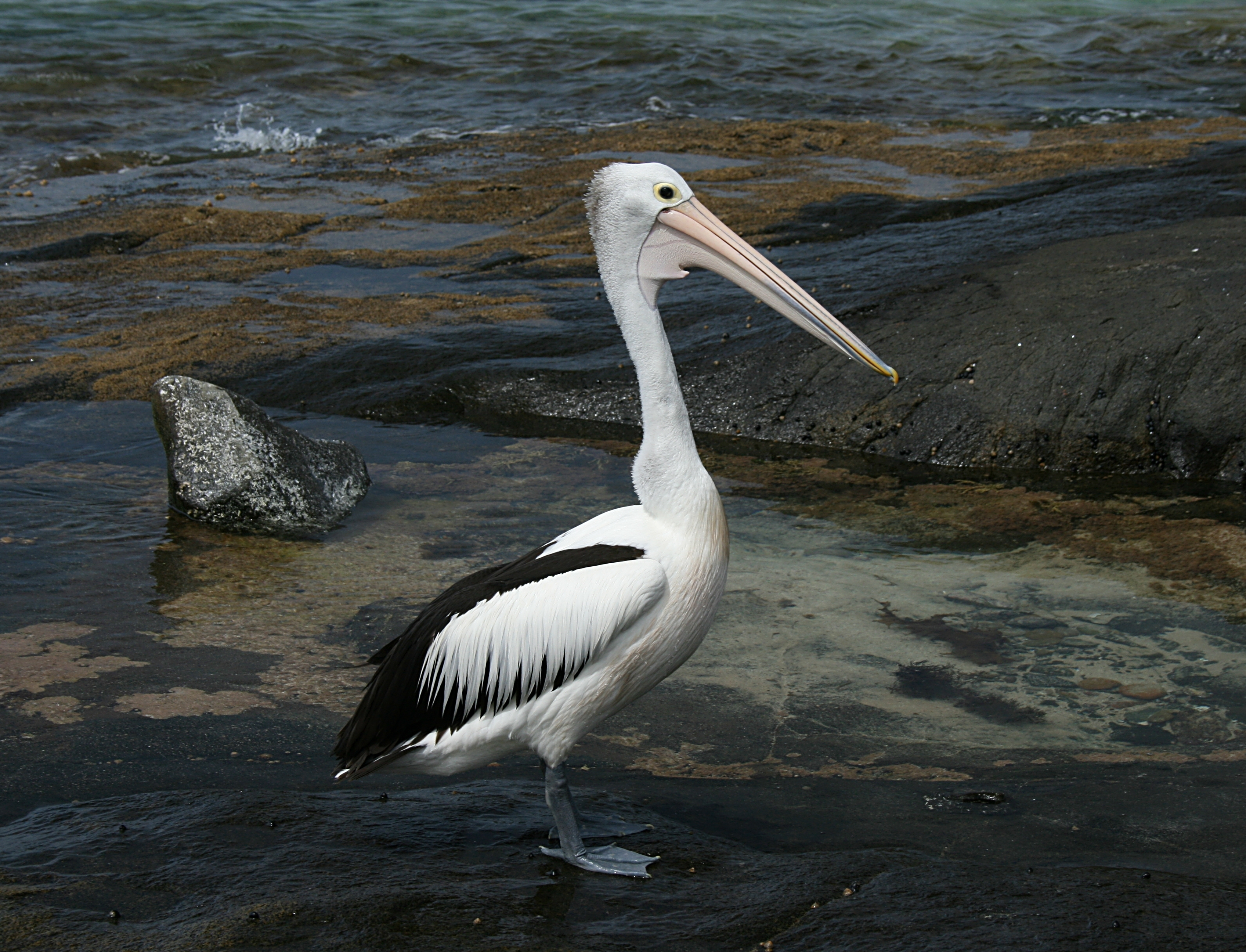 An Australian Pelican (pelecanus conspicillatus) at Kioloa beach in New South Wales, Australia. This photograph was taken with a polarizing filter to screen out the reflections on the water and rocks.